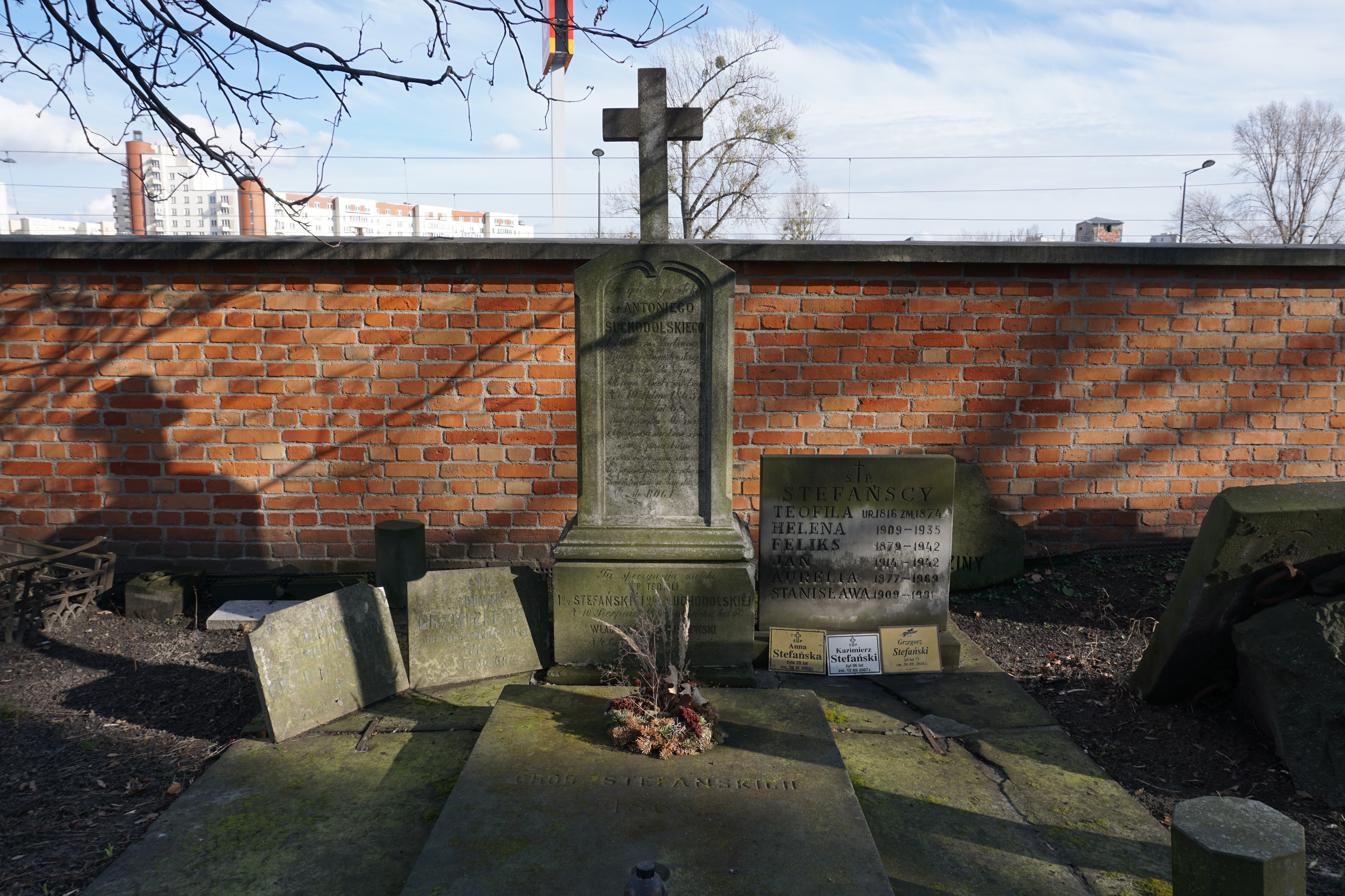 The grave of Kazimierz Wiktor Stefański at the Powązki Cemetery (section Under Temler, row 1, grave 17, 18)